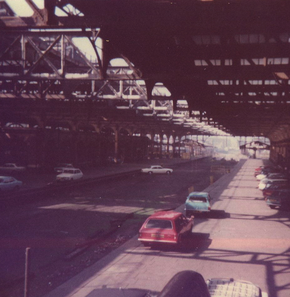 View from top of steps down to platform 7 and 12. The trackbeds are filled in to make more space for cars - no need for markings.